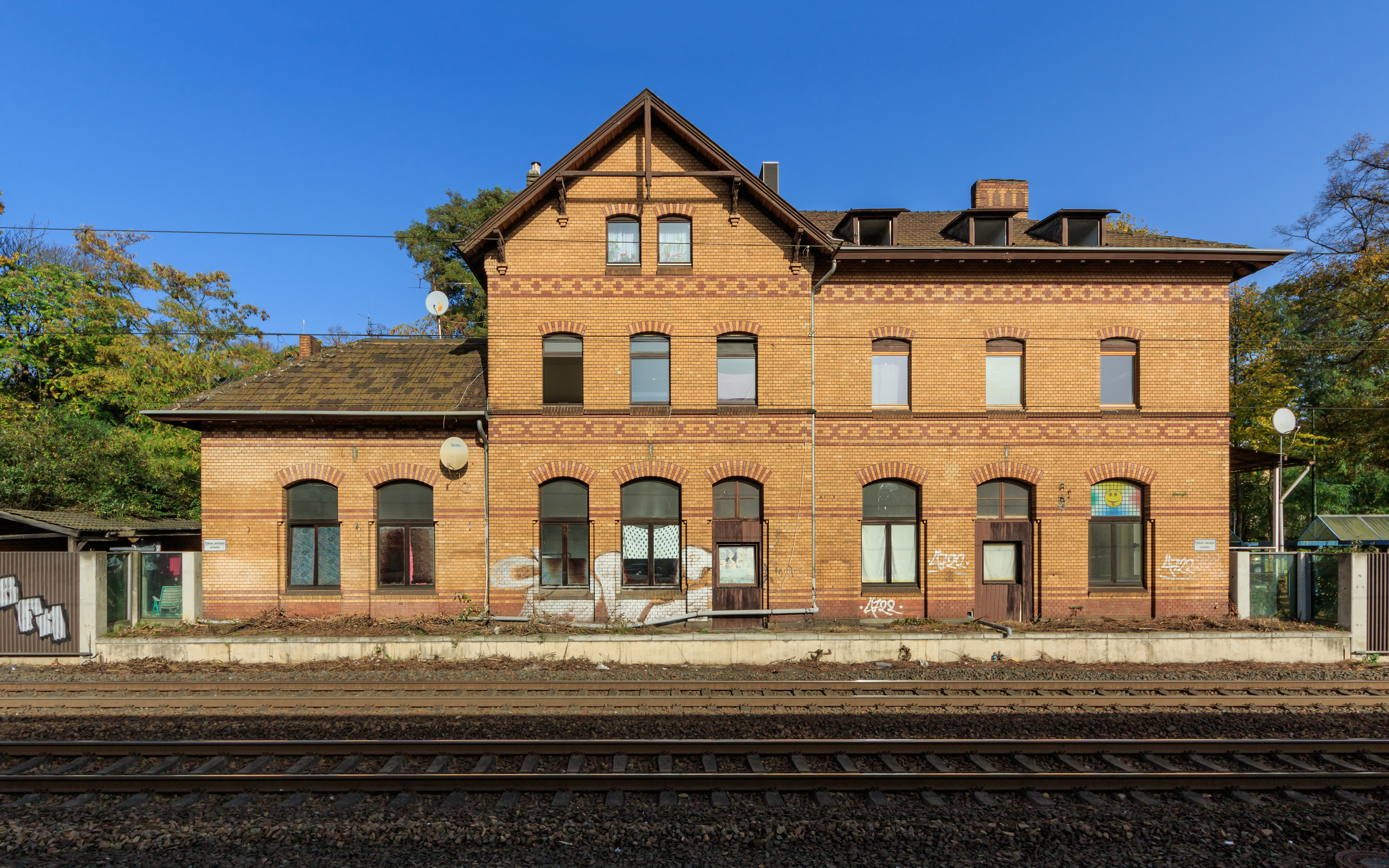 S-Bahn halt in Frechen-Königsdorf, Rhein-Erft-Kreis (Germany)